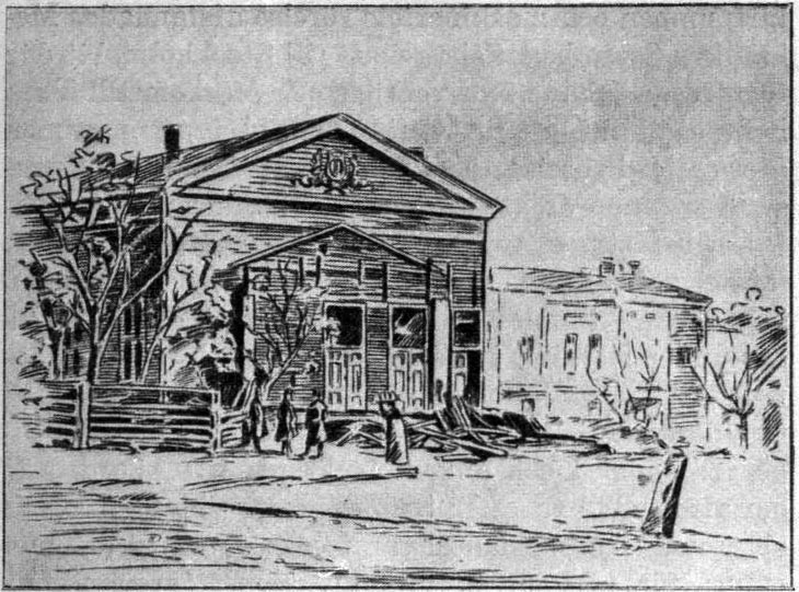 19th century theatre house in Helsinki, Finland.